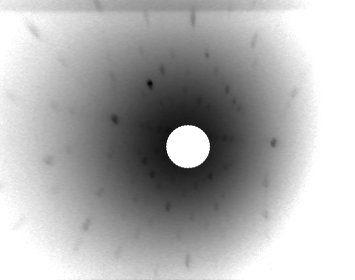 Laue back-scattering picture of a disoriented cubic crystal